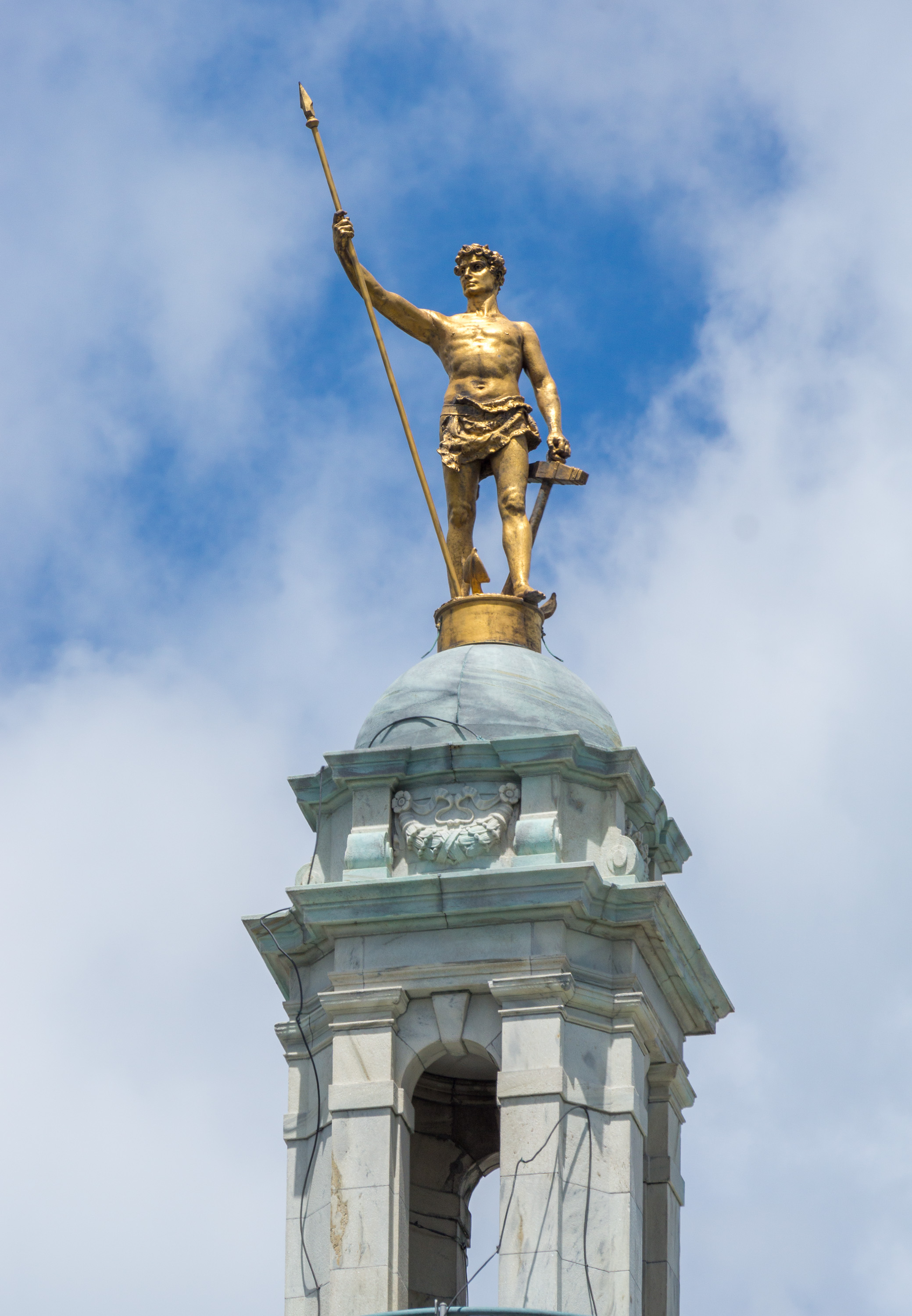 The Independent Man is the statue atop the Rhode Island State House. Providence, Rhode Island.